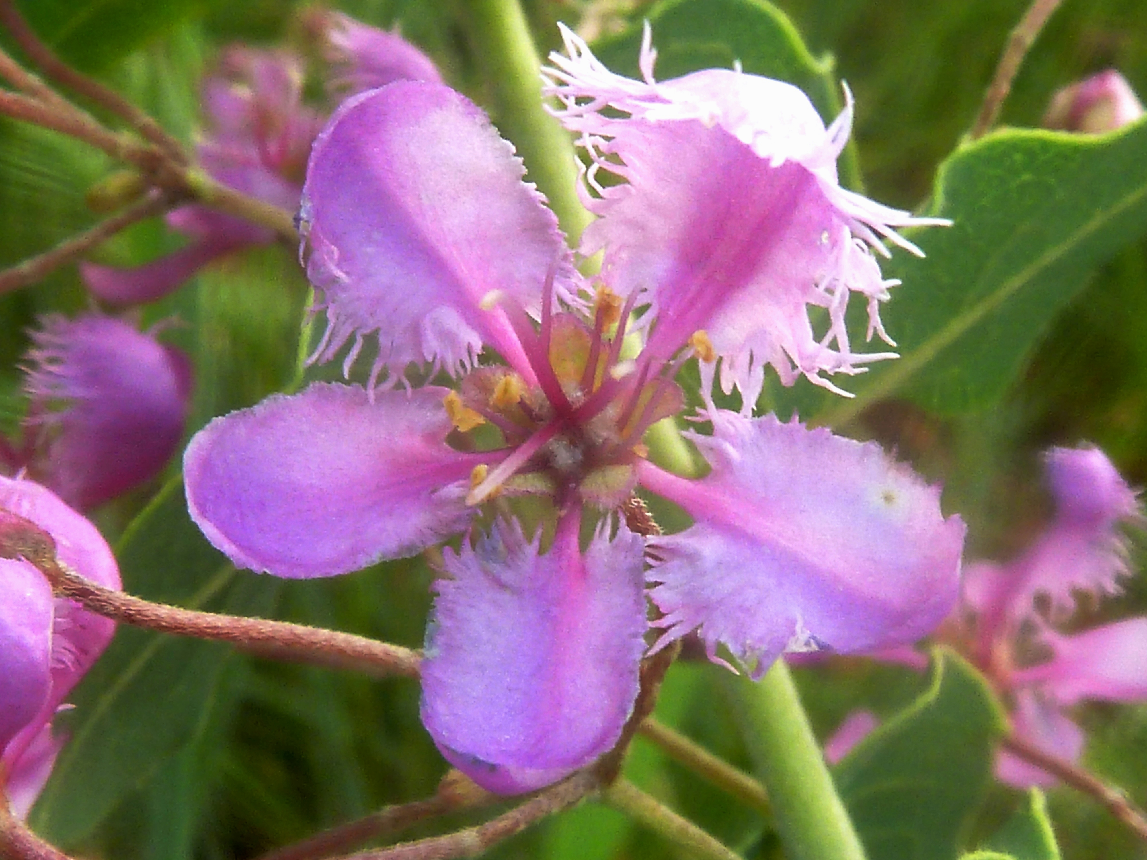 Flower of Triaspis hypericoides growing at Smuts Koppie, Gauteng